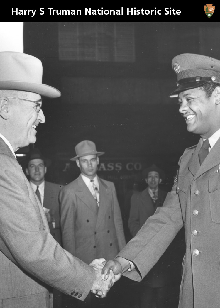 On July 26, 1948, President Harry Truman issued Executive Order 9981, which ended segregation in the military based on race, color, religion, or national origin. Truman’s order was the first major blow to segregation, and a great victory for civil rights. It also gave real hope that more change was possible.